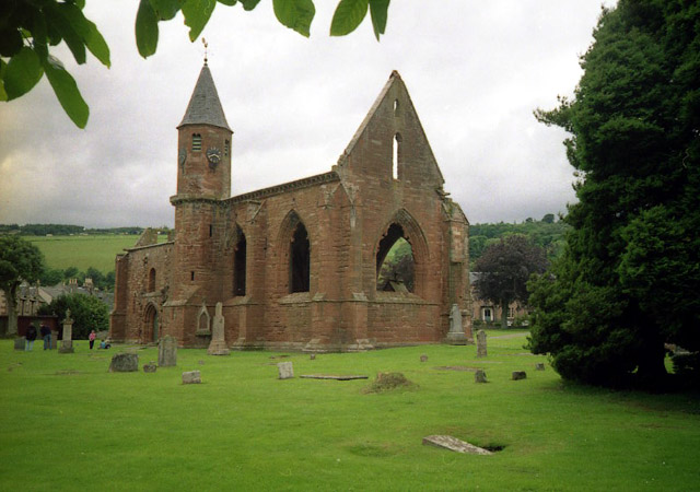 Cathedral Ruin, Fortrose The clock still seems to work, though.